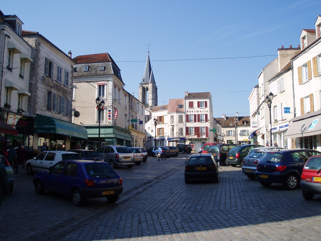 Place du Marché, Brie-Comte-Robert, Seine-et-Marne, France